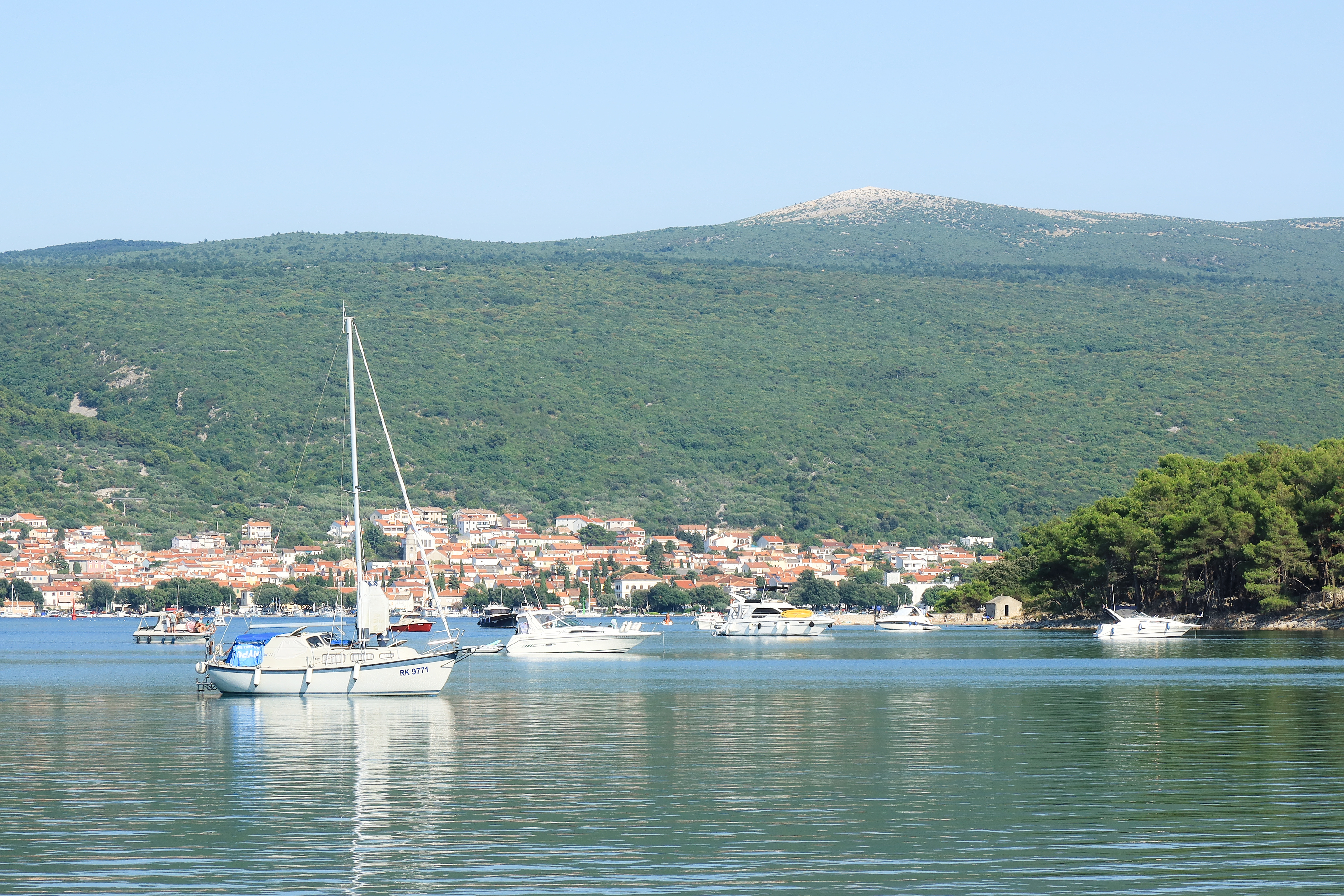 Punat Cove.